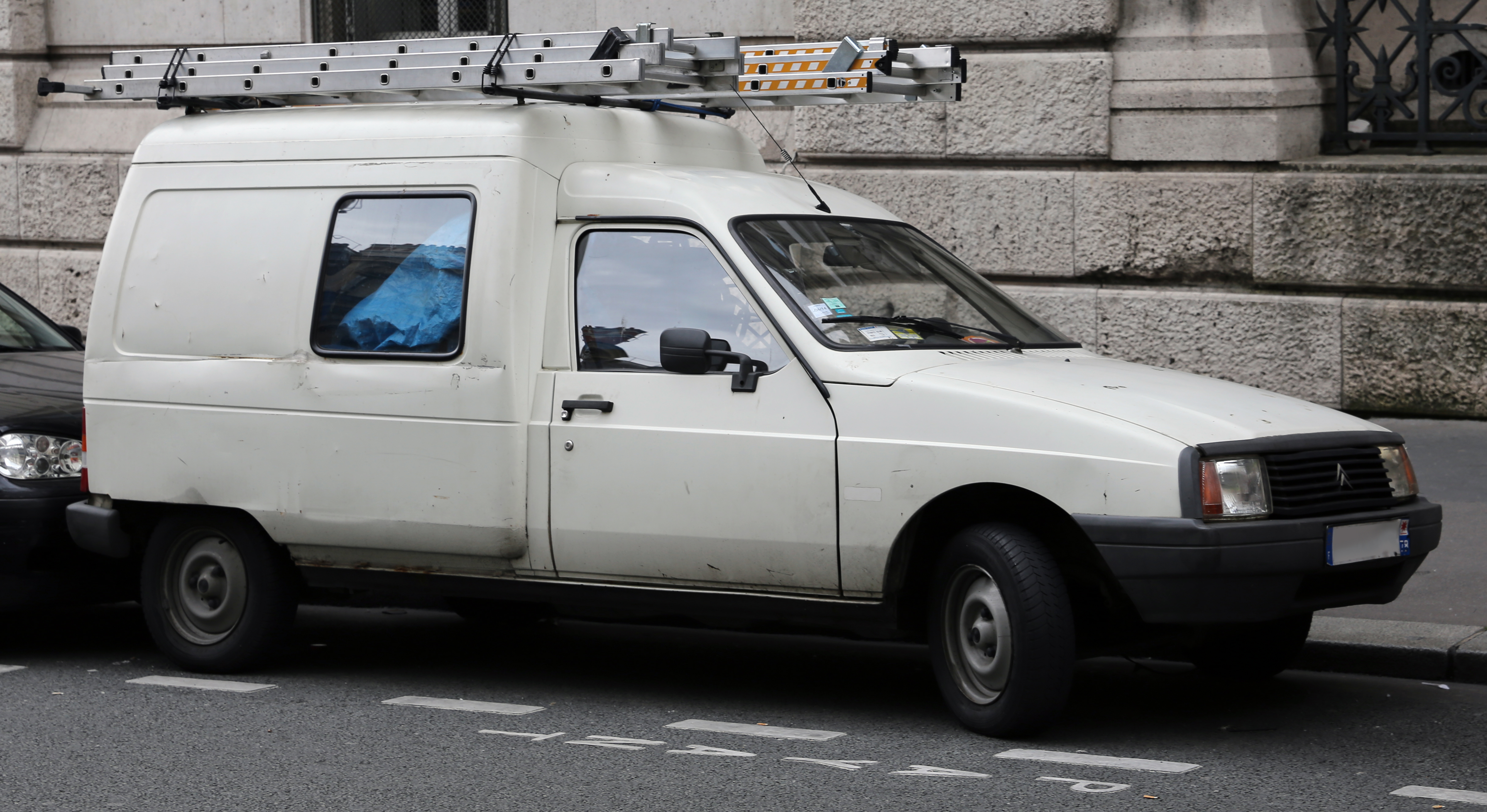 Citroën C15, an early pre-facelift version. Cars built after September 1989 have a different front treatment, and post-1992 cars have cladding on the sides.